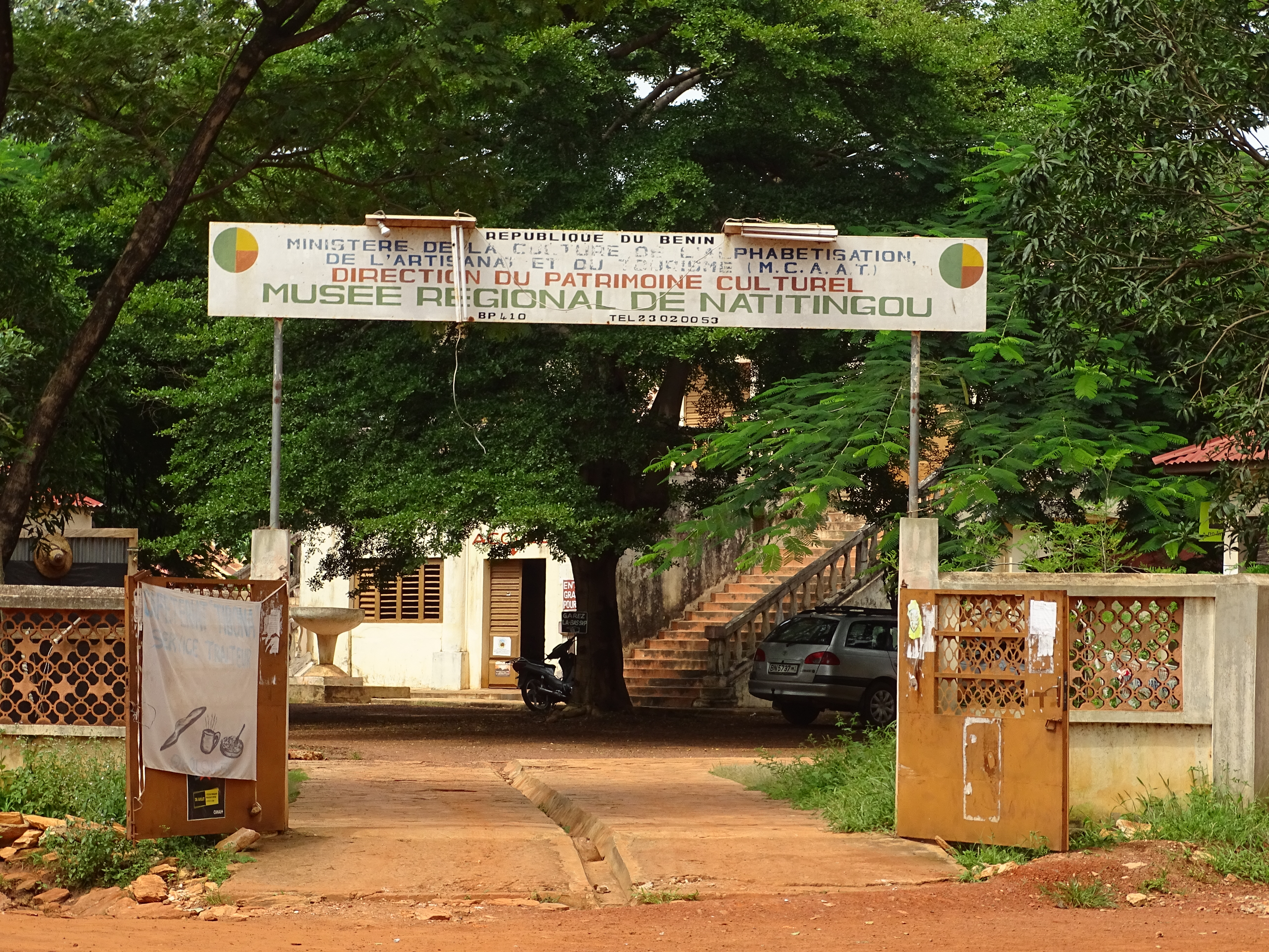 The Natitingou Regional Museum is a Beninese museum located in the town of Natitingou, in the department of Atacora. It houses 360 collector's items dealing with archeology, history and art in Natitingou.